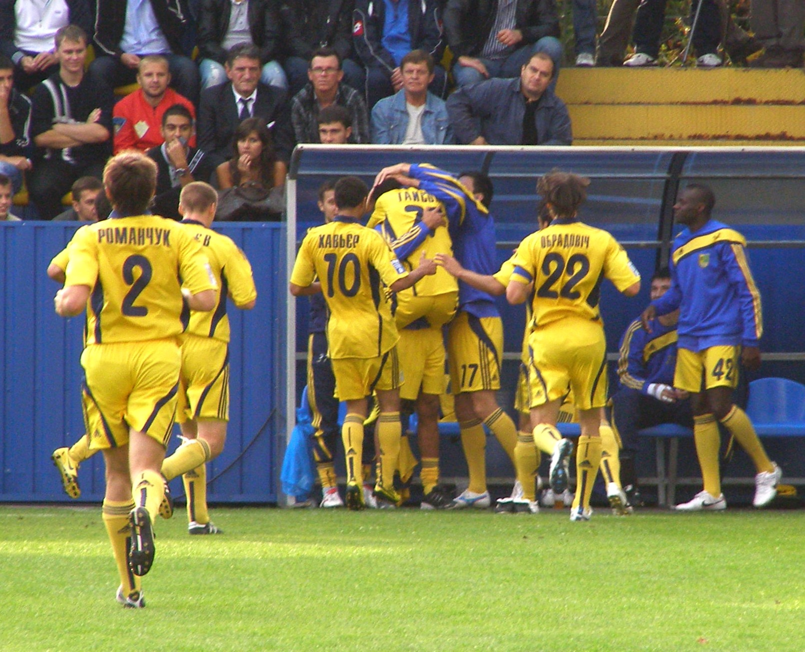 Taison celebrates scoring his first goal in Ukrainian Premier League